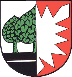 Coat of arms of the municipality Linden in Schleswig-Holstein, Germany.